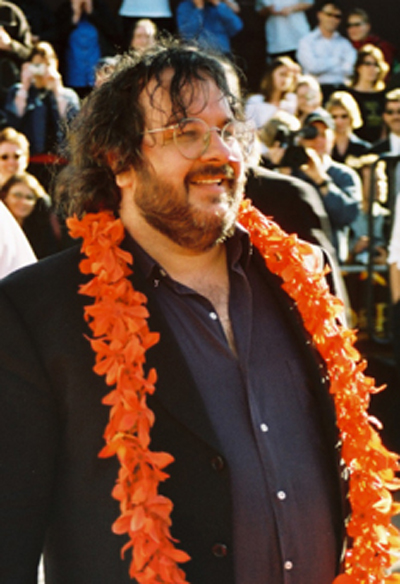 Director Peter Jackson at the World premiere of the third part of Lord of the Rings in Wellington, New Zealand.